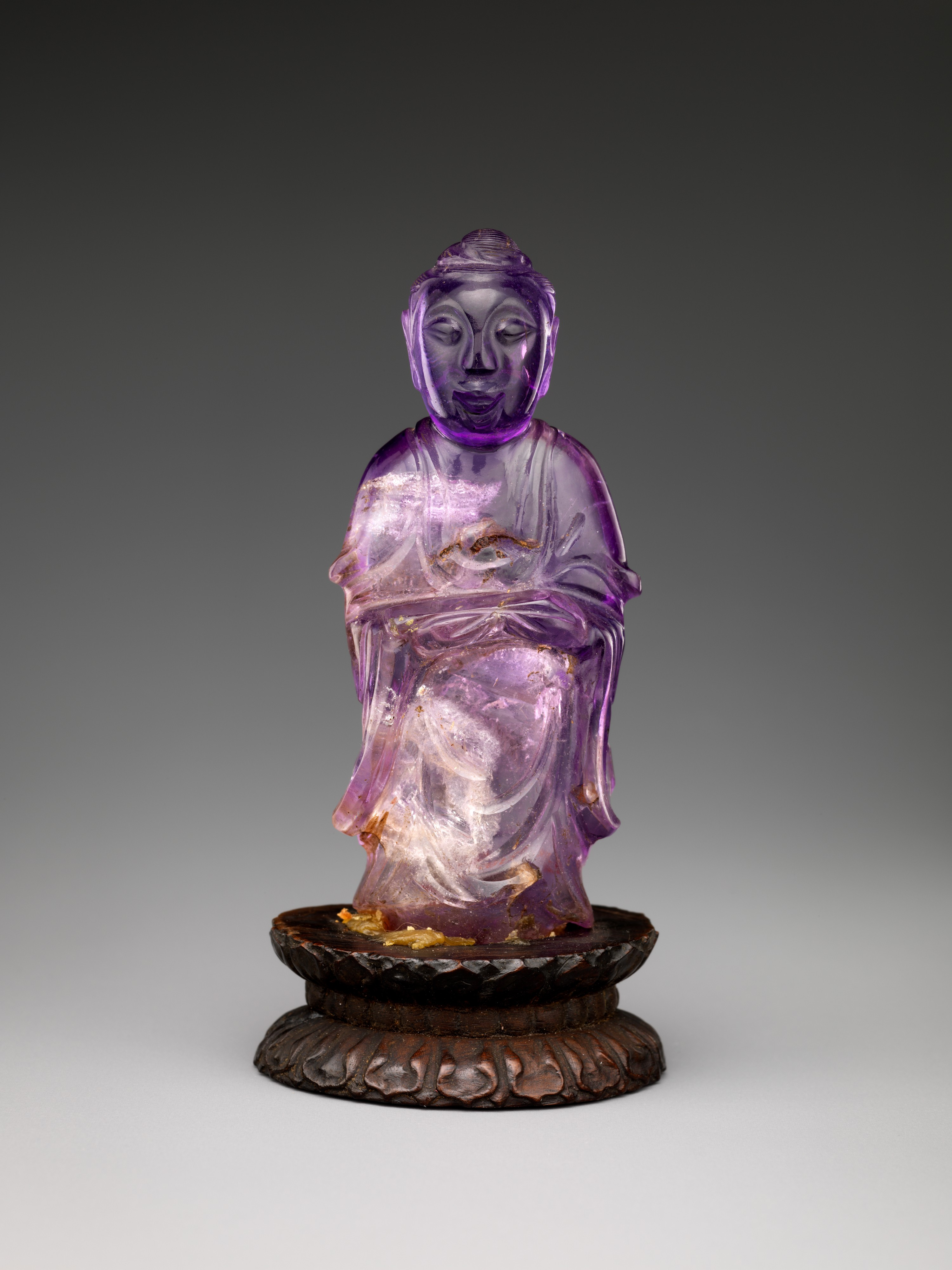 清 紫晶立佛 Standing Buddha Period: Qing dynasty (1644–1911) Date: 18th century Culture: China Medium: Amethystine quartz Dimensions: H. 2 1/8 in. (5.4 cm) Classification: Hardstone Credit Line: Gift of Heber R. Bishop, 1902